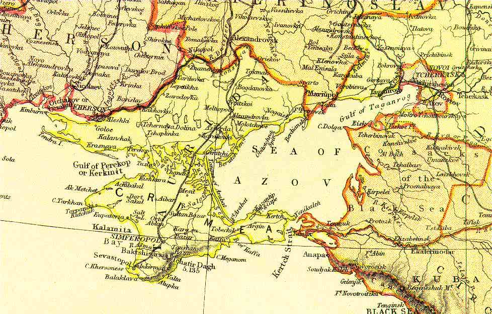 Map of Crimea, Ukraine from The Comprehensive Atlas and Geography of the World… by W. G. Blackie & Son (Edinburgh, 1882), scale: 1:6,100,000 (or one inch = about 96 miles)